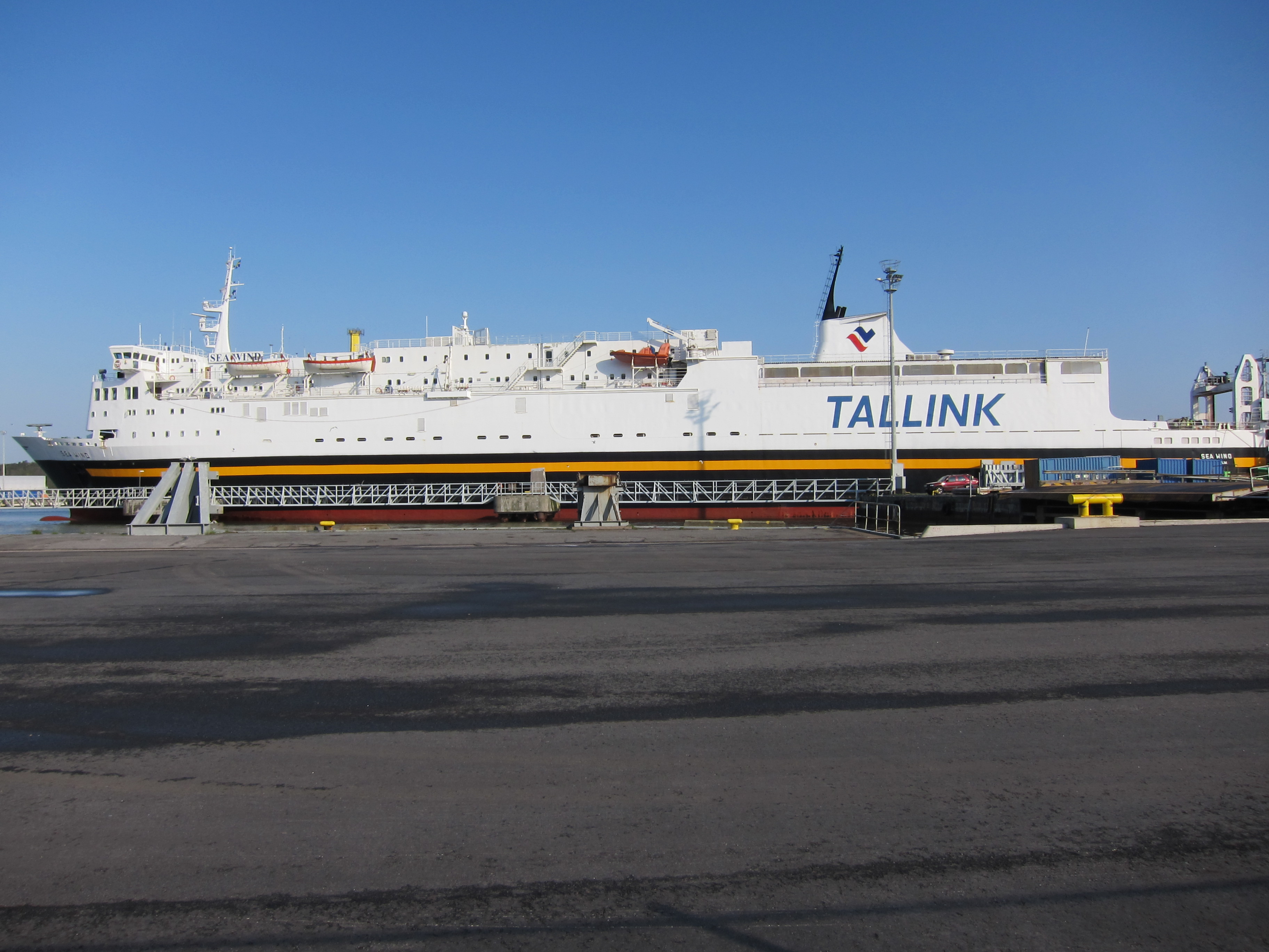 Swedish RoRo cargo ship M/S Sea Wind owned by SeaWind Line in Port of Turku, Turku, Finland.